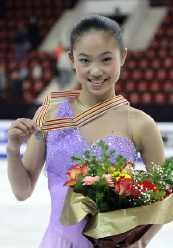 Caroline Zhang (USA) during the ladies medals ceremony at the 2009 World Junior Figure Skating Championships.